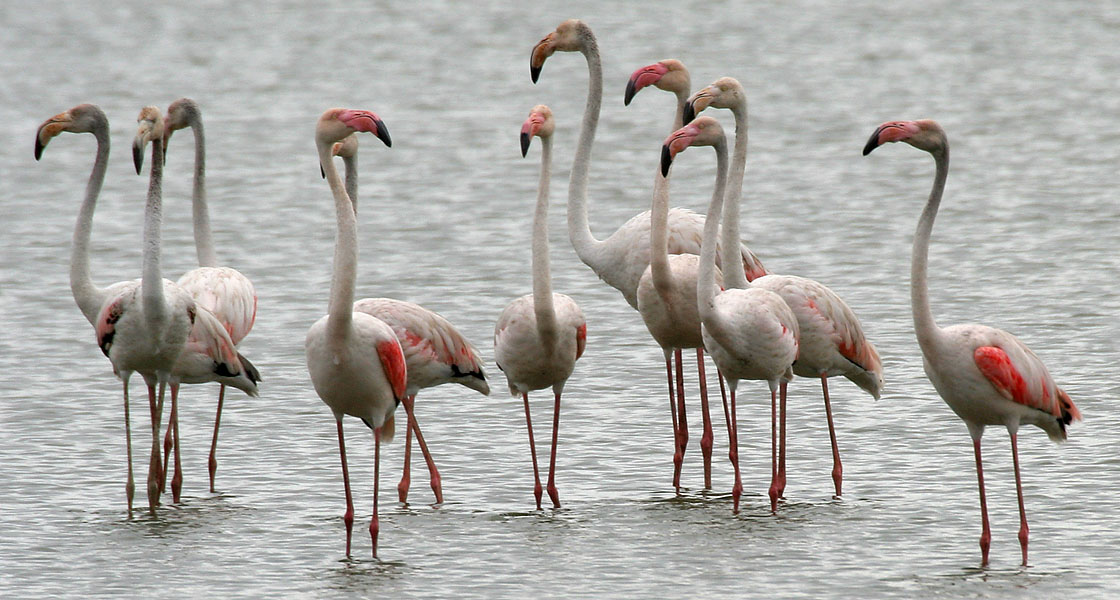 Greater Flamingo Phoenicopterus roseus at Pocharam lake, Andhra Pradesh,India.- Sind: Lakka, Lakke jani, Hindi: Bog/Raaj hans, Sans: Bruhat balak, Bagg, Valiya rajahamsam, Bi: Charaj baggo, Ben: Kanmunthi, Kanthuti, Guj: Balo, Hunj, Moto hanj, Kutch: Hanj pakkhi, Mar: Rohit, Gnipankh, Pandav, Ta: Poonarai, Kizhi mooku naarai, Te: Pu konga, Samudrapu chiluka, Raja hamsa, Mal: Valiya poonara, Sinh: Siyak karaya